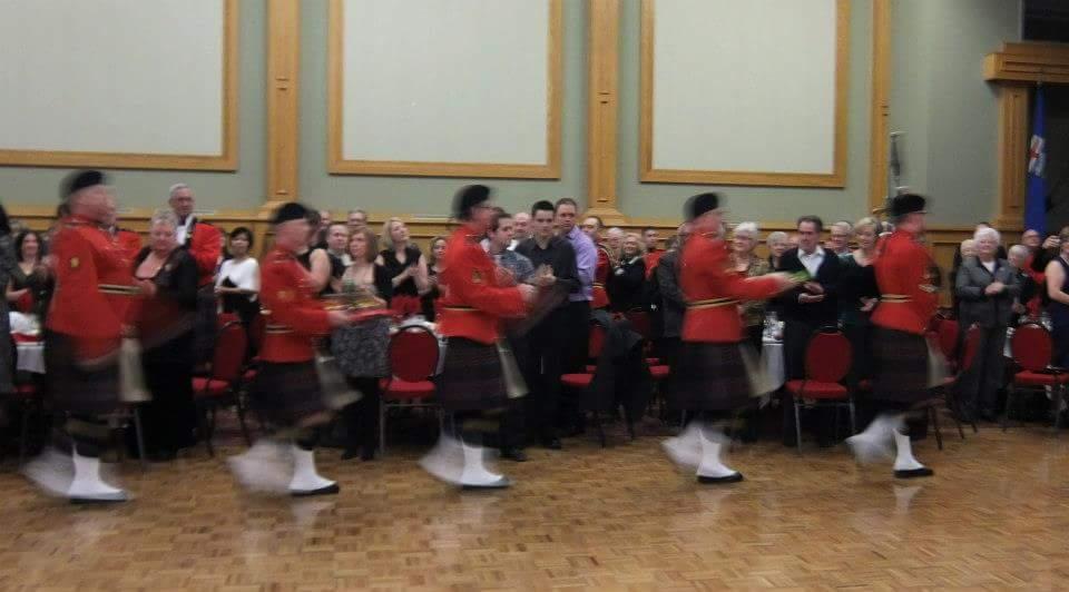 RCMP Pipes and Drums Band piping in the Haggus at their annual Burns Supper.